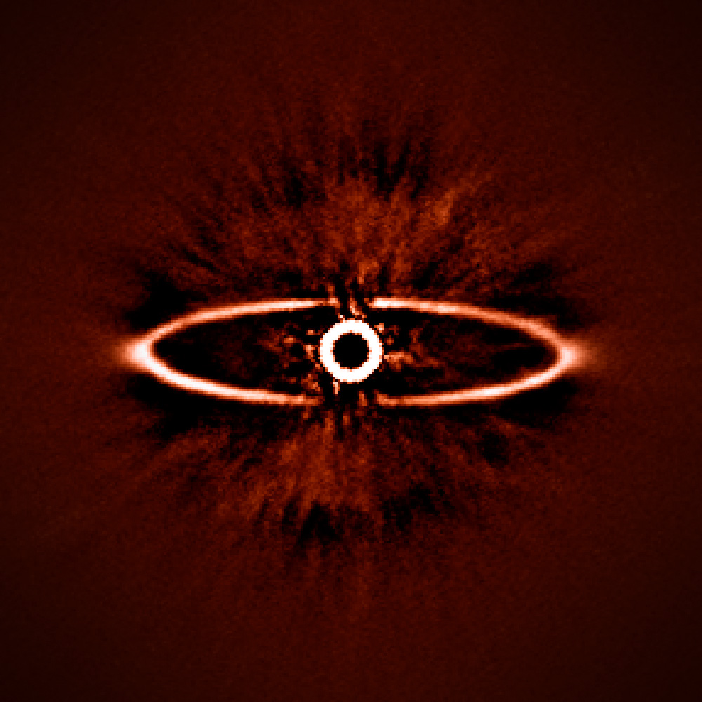 This infrared image shows the dust ring around the nearby star HR 4796A (the binary system's primary star) in the southern constellation of Centaurus. It was one of the first produced by the SPHERE instrument soon after it was installed on ESO's Very Large Telescope in May 2014. It shows not only the ring itself with great clarity, but also reveals the power of SPHERE to reduce the glare from the very bright star — the key to finding and studying exoplanets in future. This configuration has been nicknamed "Eye of Sauron".[1][2] ↑ Flora Graham (4 June 2014). "Eye of Sauron star spotted by planet-hunting camera". New Scientist. ↑ NewsCorp Australia (6 June 2014). "Sauron’s Eye has been found. And it’s watching us all, from above, in the form of ringed star HR 4796A". Courier Mail.